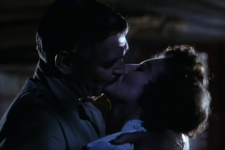 Screenshot of Ava Gardner and Clark Gable from the trailer for the film Mogambo